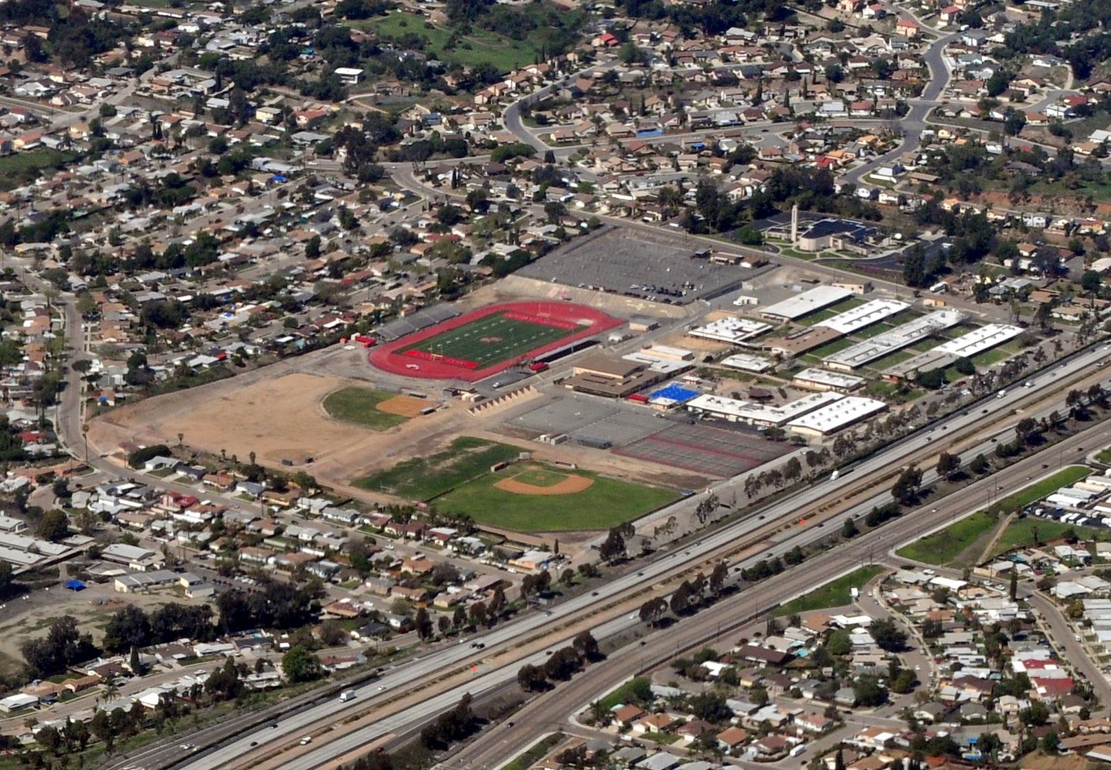 Aerial view of Mt. Miguel High School, Spring Valley, California from the southeast. California State Route 125 running past the campus to its east.